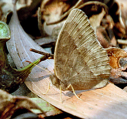 Common Bushbrown Mycalesis perseus in Kolkata, West Bengal, India.